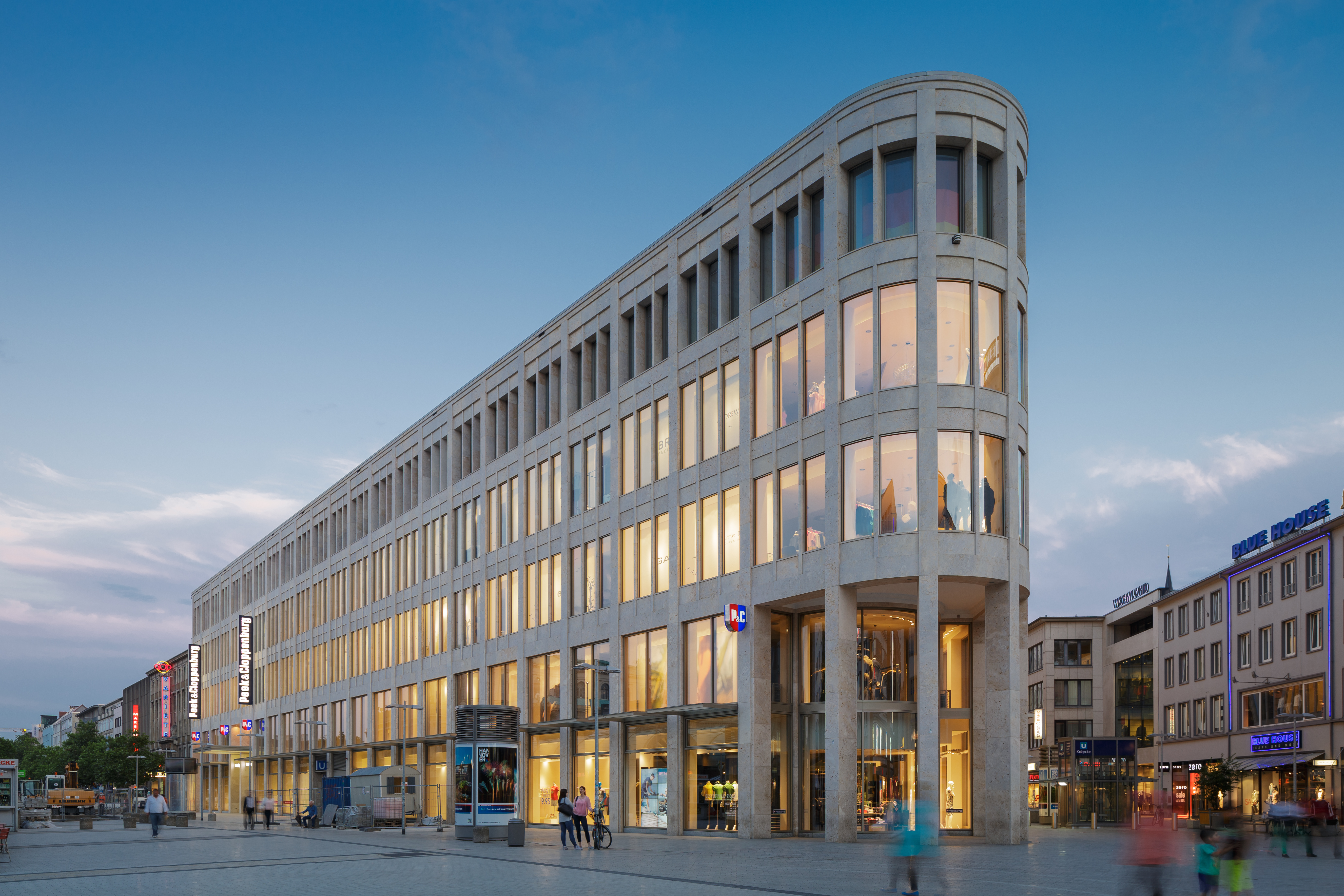 Department store "Kroepcke-Center" located at Kroepcke, the central square in Hanover, Germany. The image shows the building after an extensive renovation.